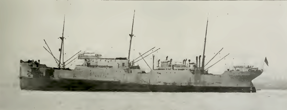 MS Jutlandia of 1912 (Lloyd's), one of earliest motorships. Counterpart built in Scotland of MS Selandia and MS Fionia. Photographed in San Francisco, California.